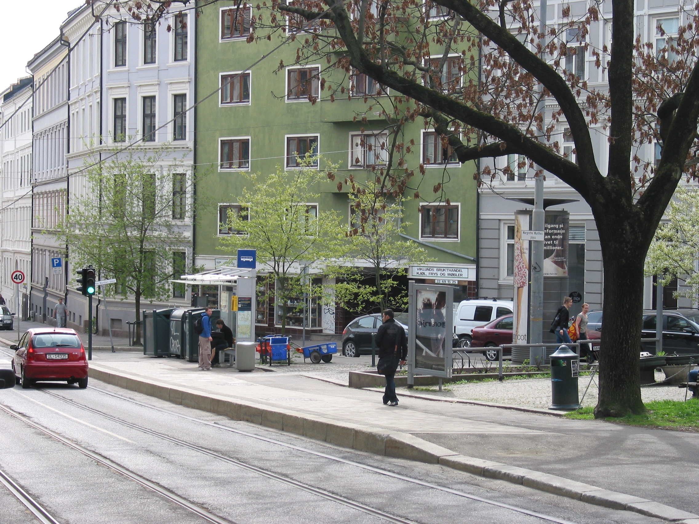 Stensgata station, Oslo. Looking south.